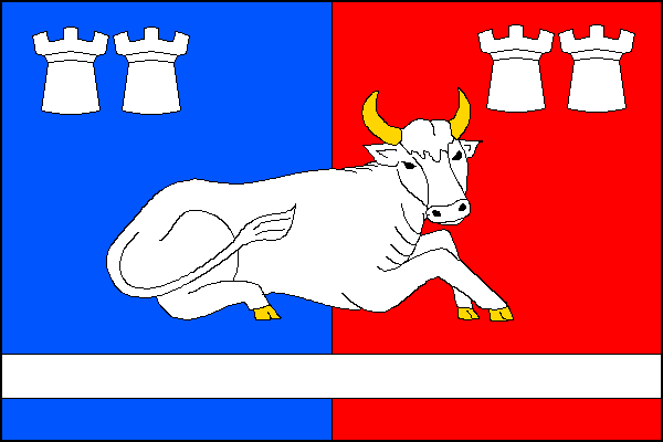 Municipal flag of Hovězí village, Vsetín District, Czech Republic.